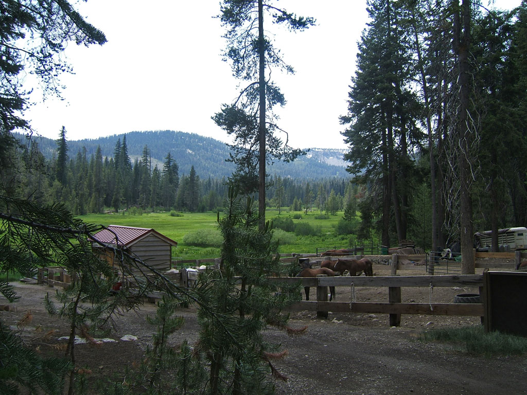 Drakesbad Guest Ranch, listed on the National Register of Historic Places, in Plumas County, California, USA